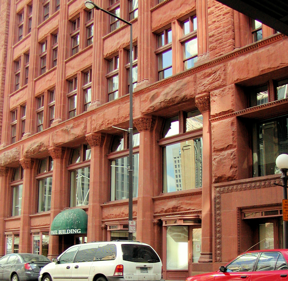 Germania Bldg., 6 5th St. W., Saint Paul